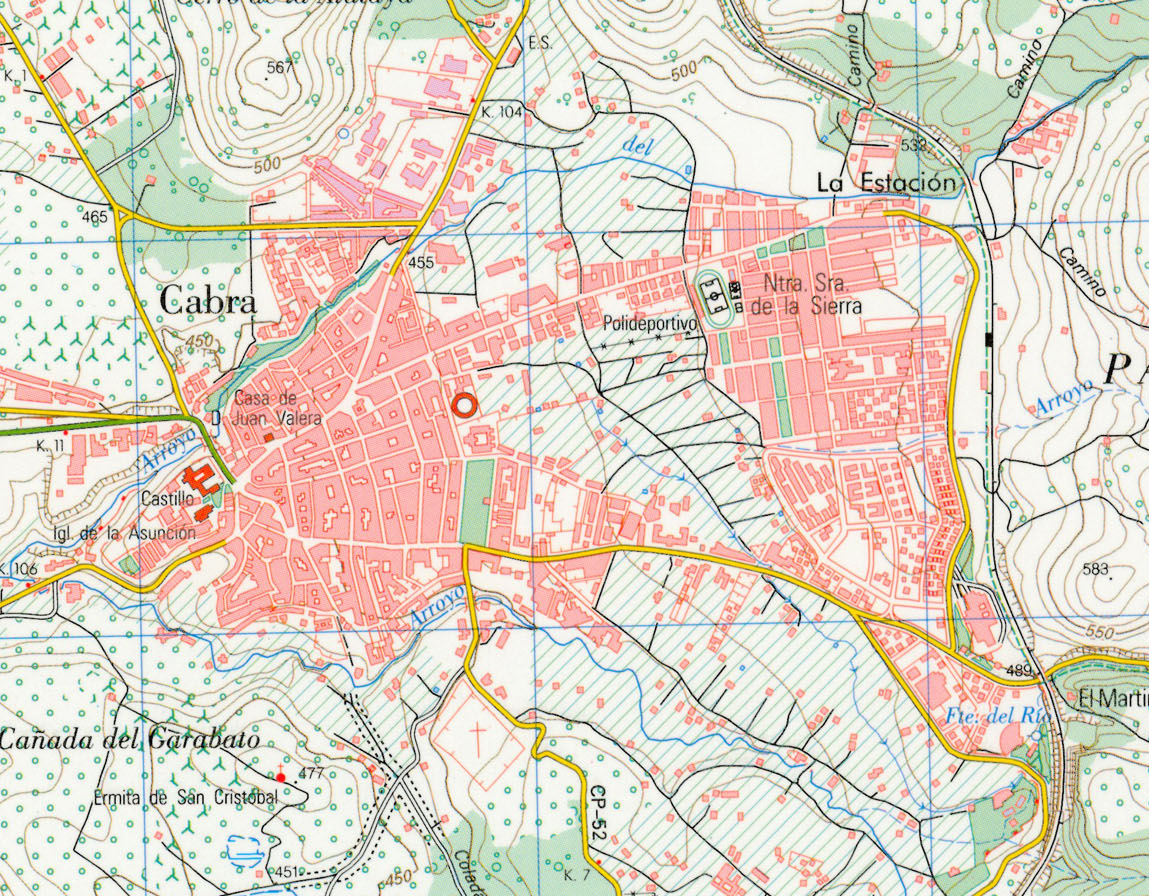 Fragment 0989c1 of the National Topographic Map of Spain in 2002 at a scale of 1:25000 printed and scanned with a resolution of 250 ppi. It shows Cabra.